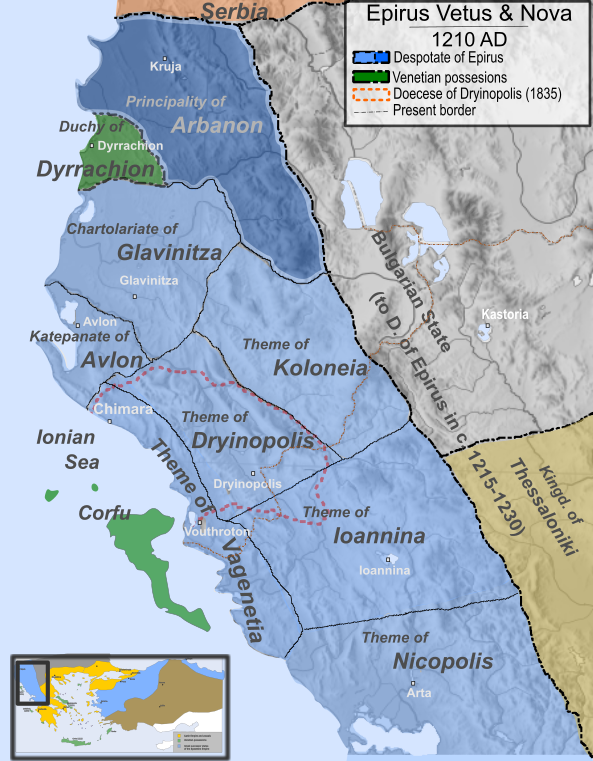 Epirus (Vetus and Nova) at 1210 AD